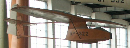 Polish glider IS-A Salamandra (reg. SP-322), Polish Aviation Museum in Kraków.